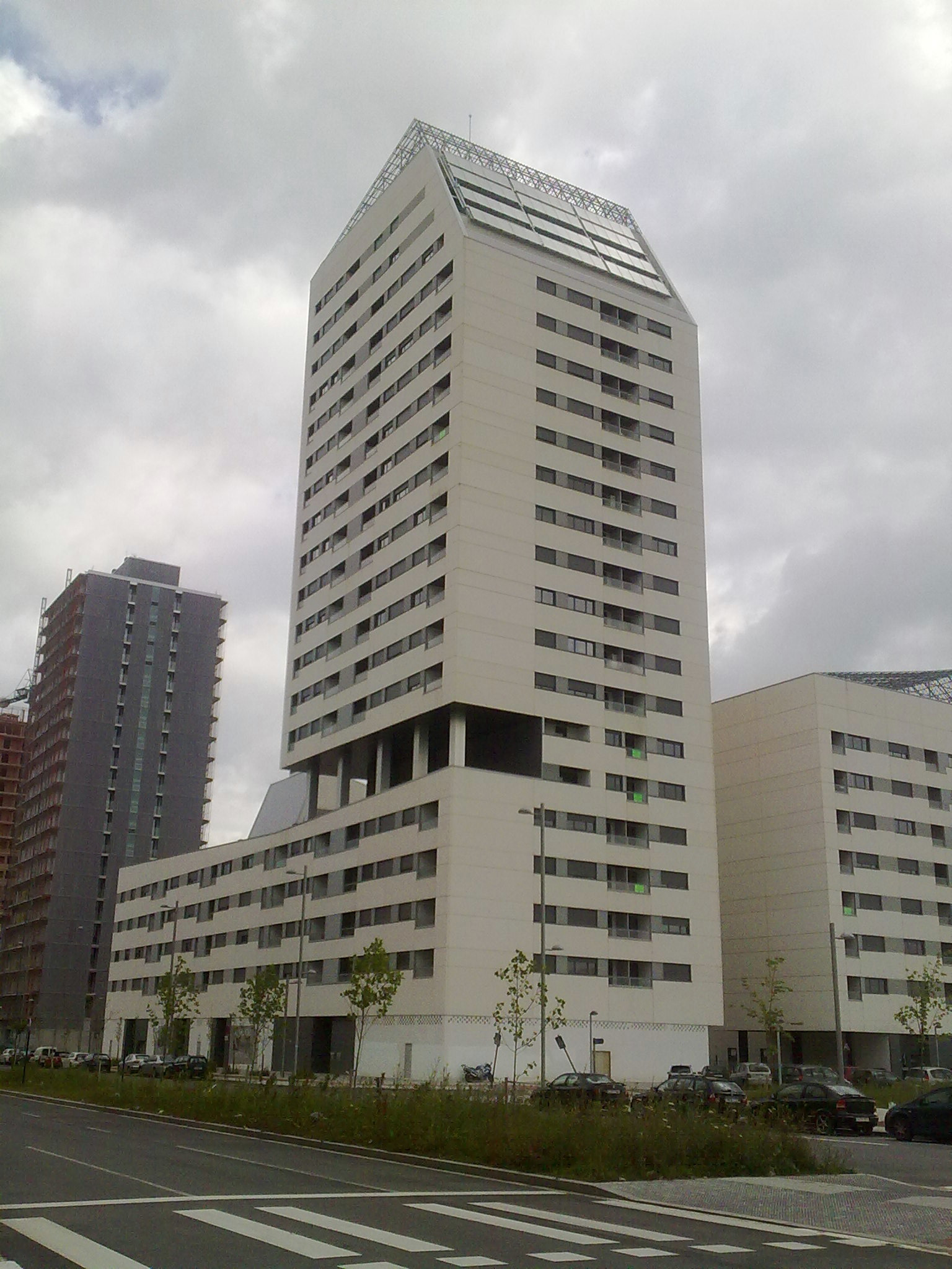 Tallest building in Vitoria-Gasteiz.